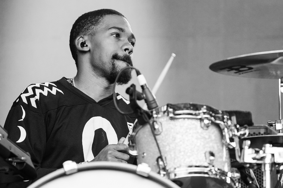 George McCurdy in a concert with Lauryn Hill at Kirketorget. The concert was part of Kongsberg Jazzfestival and took place on 04. July 2019 in Kongsberg. Lineup:Lauryn Hill (vocal)Igmar Thomas (trumpet and bandleader)George McCurdy (drums)Jay Rosado (bass guitar)Matthias Loescher (guitar)Michel Ferre (keyboard)DJ Reborn (disc jockey)Candice Anderson (backing vocal)Tara Harrison (backing vocal)Tanikka Myers (backing vocal)